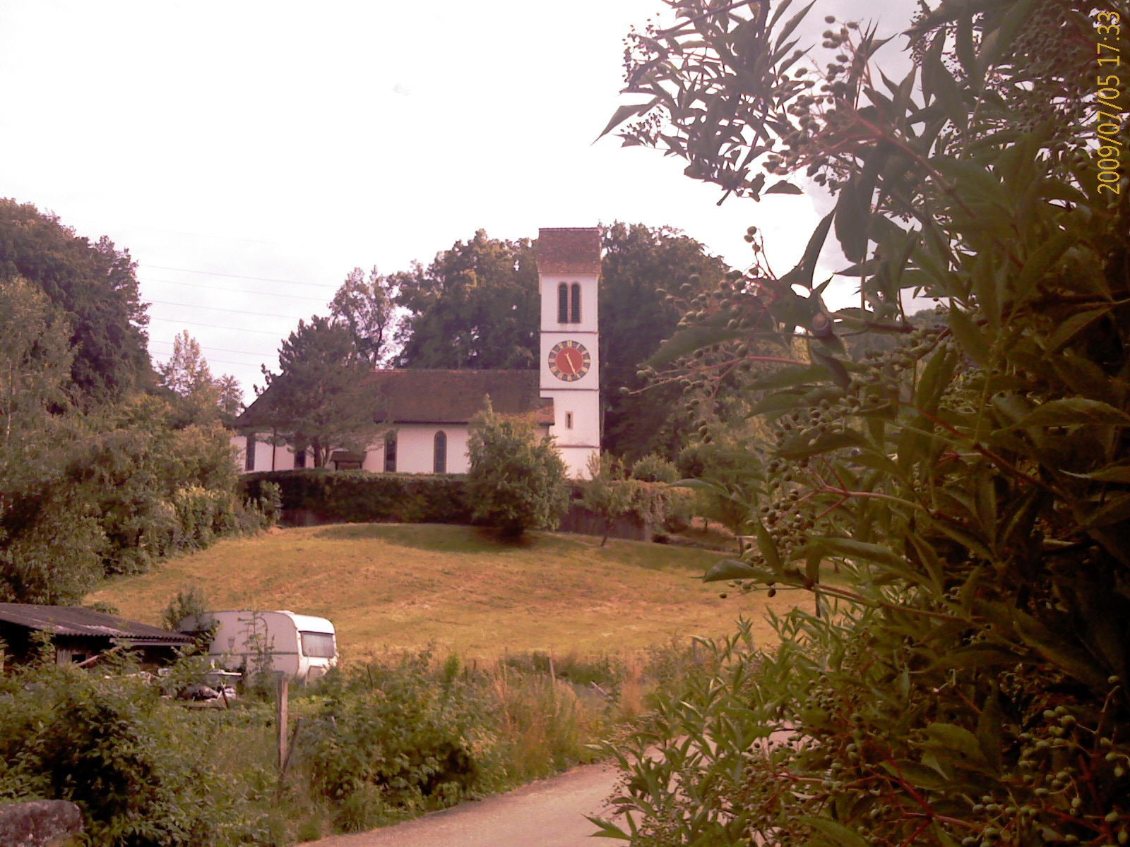 Church of Ormalingen, canton of Basel-Country, SwitzerlandEsperanto: Preĝejo de Ormalingen, Kantono Bazelo Kampara, Svislando